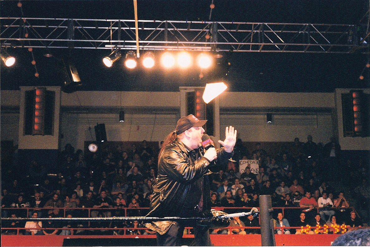 and probably taunting people... ECW @ Westchester County Center in White Plains, NY TNN TV Taping - 12.23.99